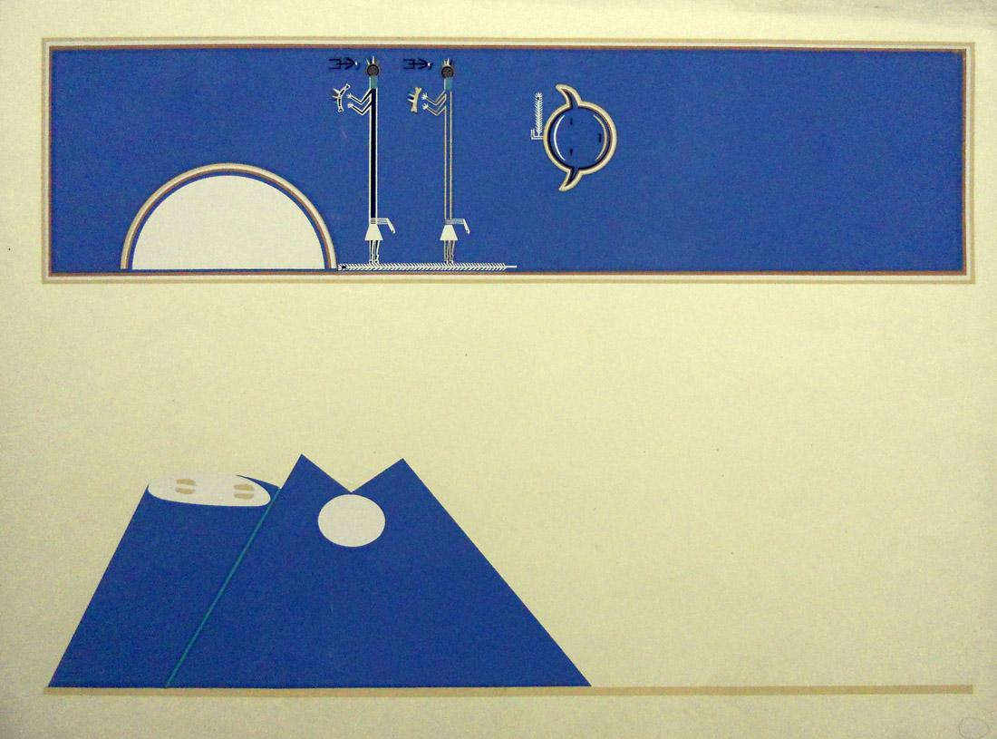 Sin Titulo 2, Museo Nacional de Artes Visuales